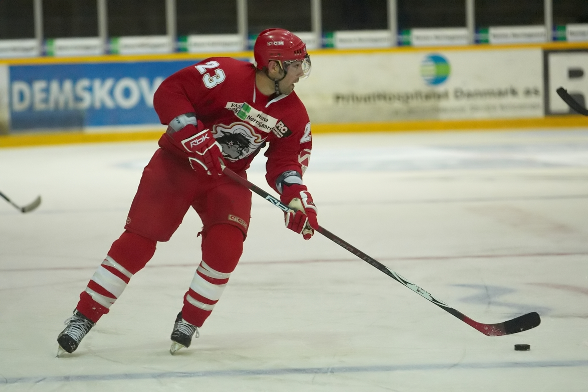 Mr. Christian Larrivée in action.